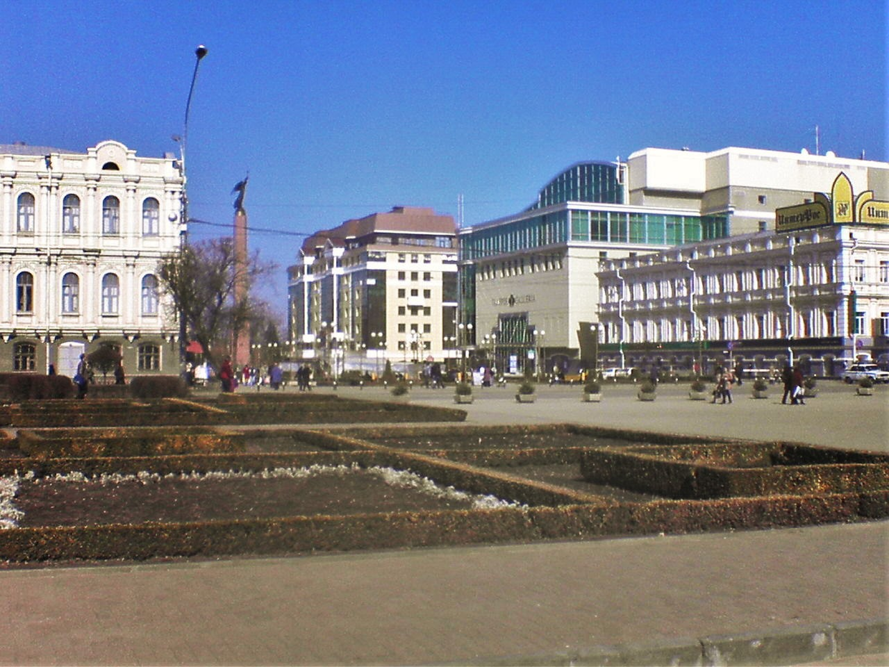 The city center of Stavropol, Russia